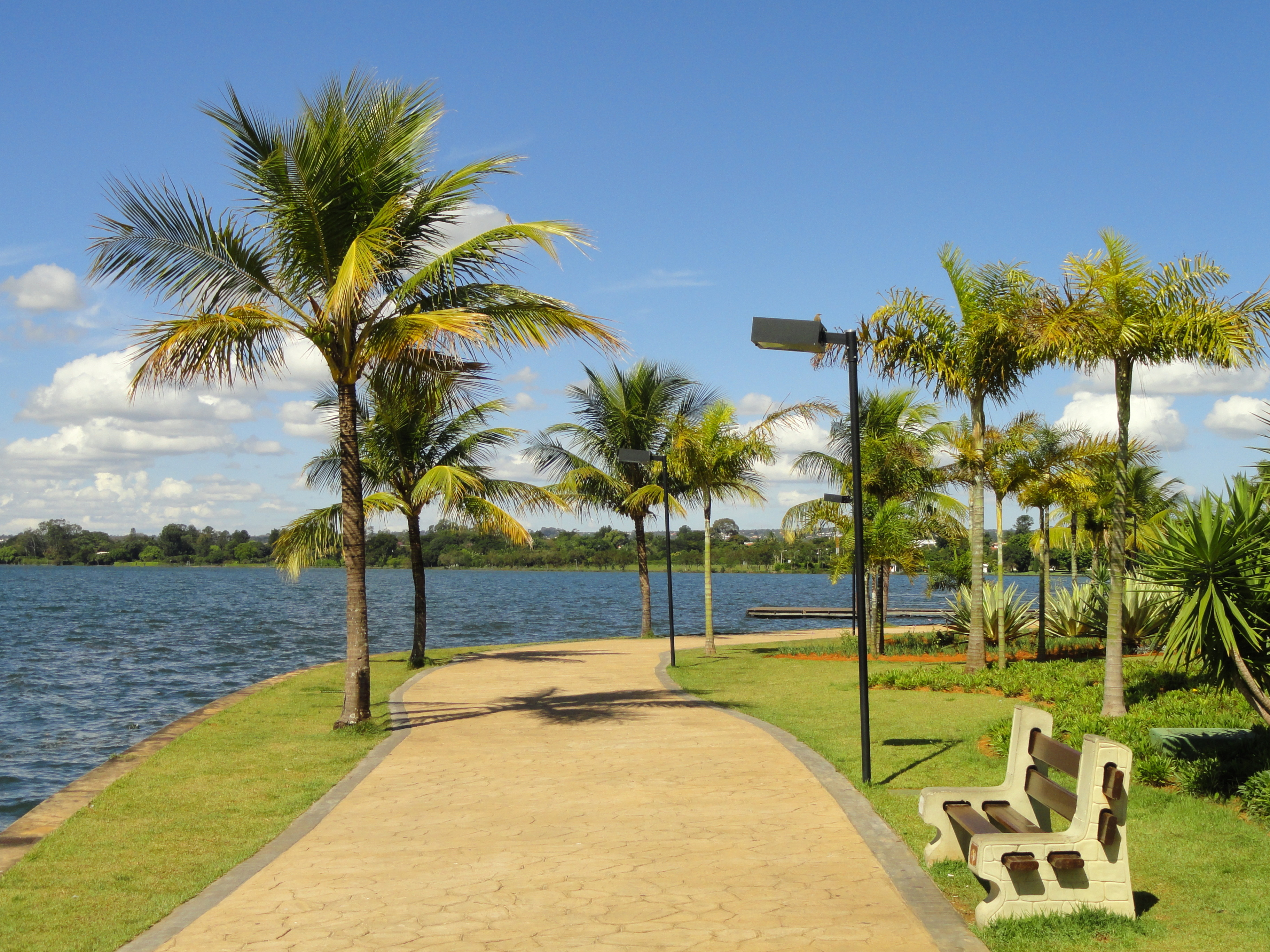 Paranoá Lake from Pontão do Lago Sul - Brasilia, Brazil.